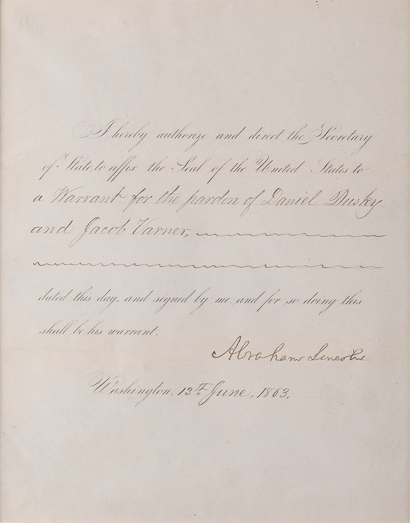 The pardon for Confederate partisan rangers Daniel Dusky (Duskey) and Jacob Varner, dated June 13, 1863, signed by President Abraham Lincoln